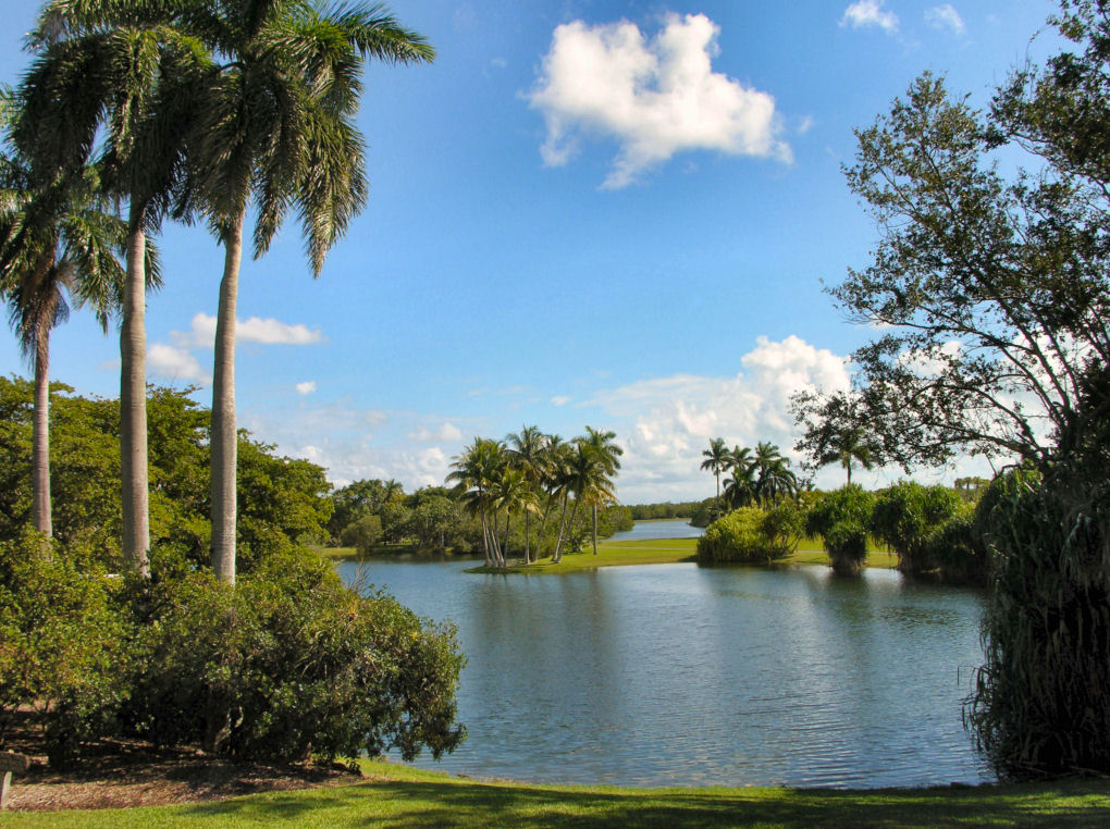 View of Fairchild Tropical Gardens - Miami